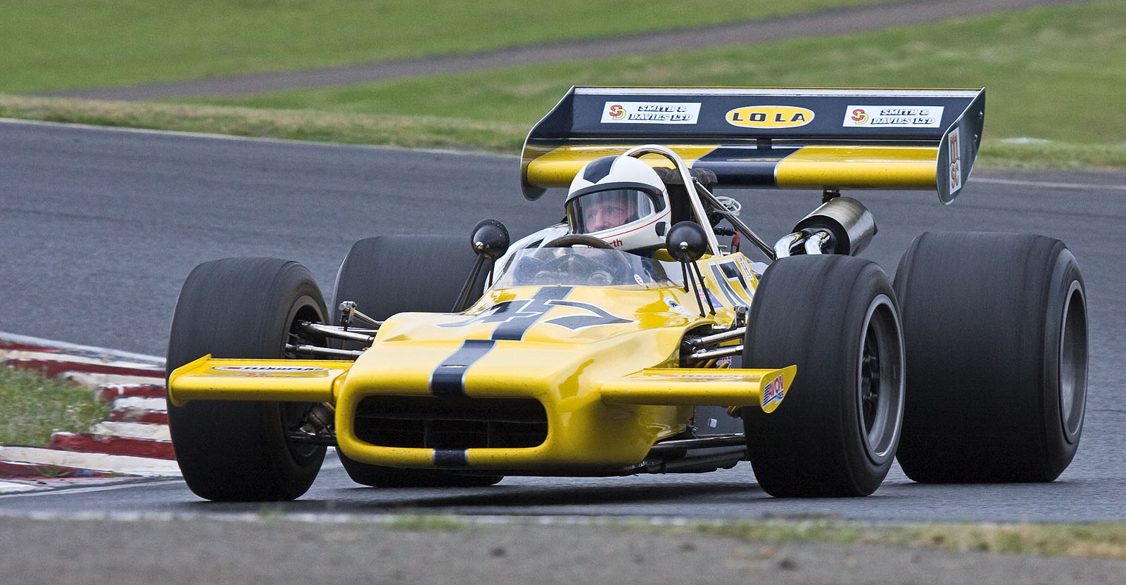 Tasman Revival 2008, Eastern Creek, Australia. IMG_3395